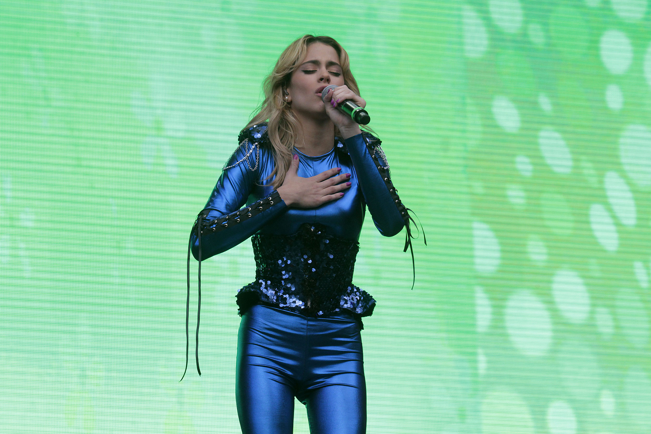 Martina Stoessel performing on May 2, 2014 during the free concert "Juntada Tinista" in Buenos Aires.